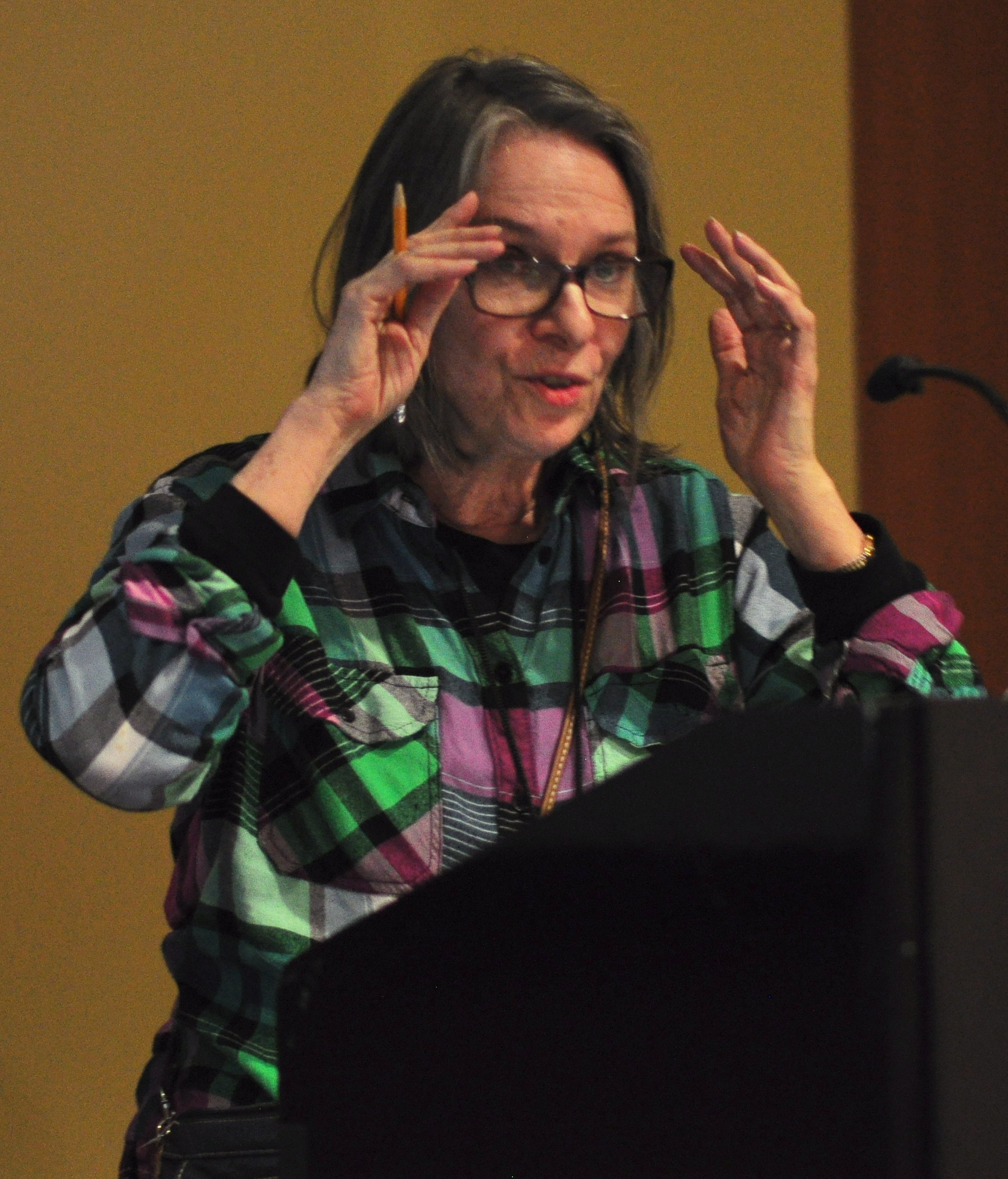 Carola Dibbell on the "Early Rock Critics" panel, Saturday, April 18, 2015, Pop Conference 2015. Learning Labs, EMP Museum, Seattle, Washington.